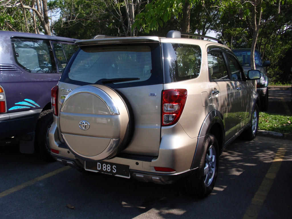 Toyota Rush LWB.